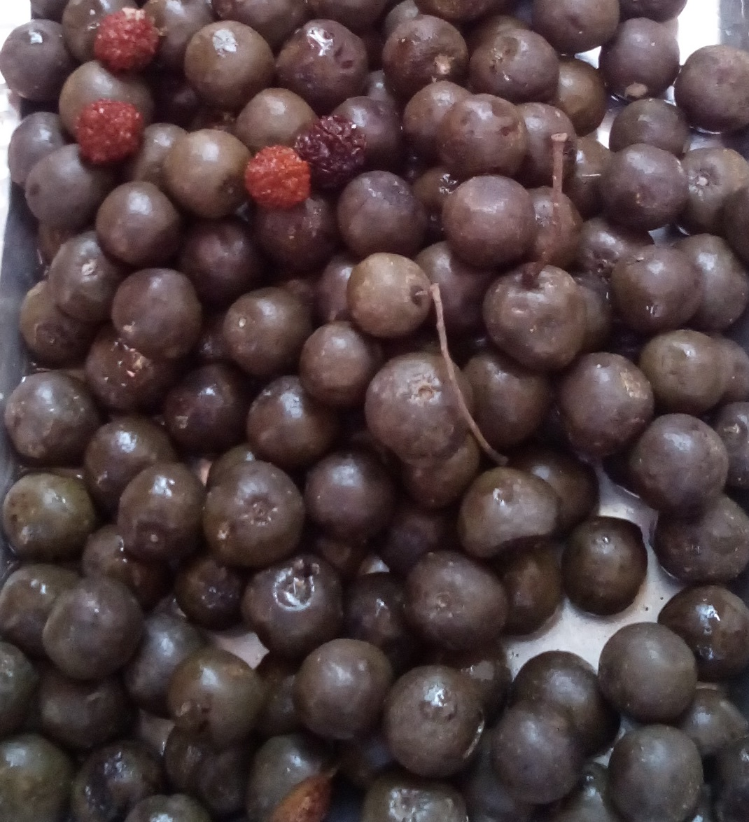 These are the fruits. When you remove the soft coating the seed is revealed. This photo taken at Kamkhaya Temple in Gauhati. The fruits seemd to be preserved in brine.